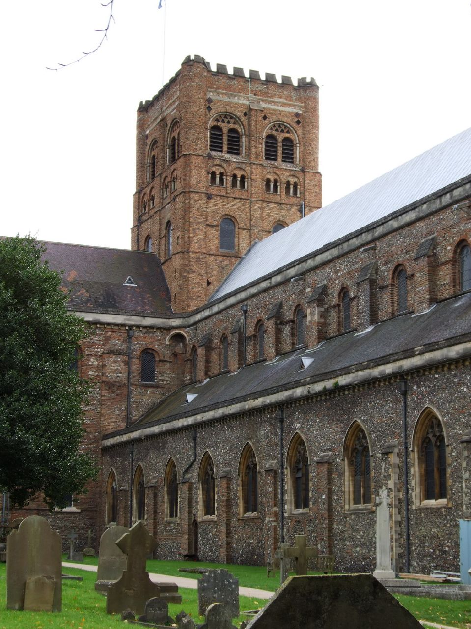 St Albans Cathedral